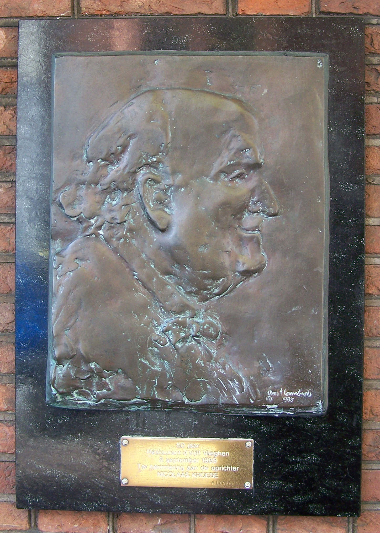 Relief of "Nicolaas Kroese" made by Aart Lamberts in 1985. Placed at the Spuistraat in 1989. Nicolaas Kroese was the initiator of the restaurant "D'Vijff Vlieghen", which celebrated there 50st anniversary in 1989.